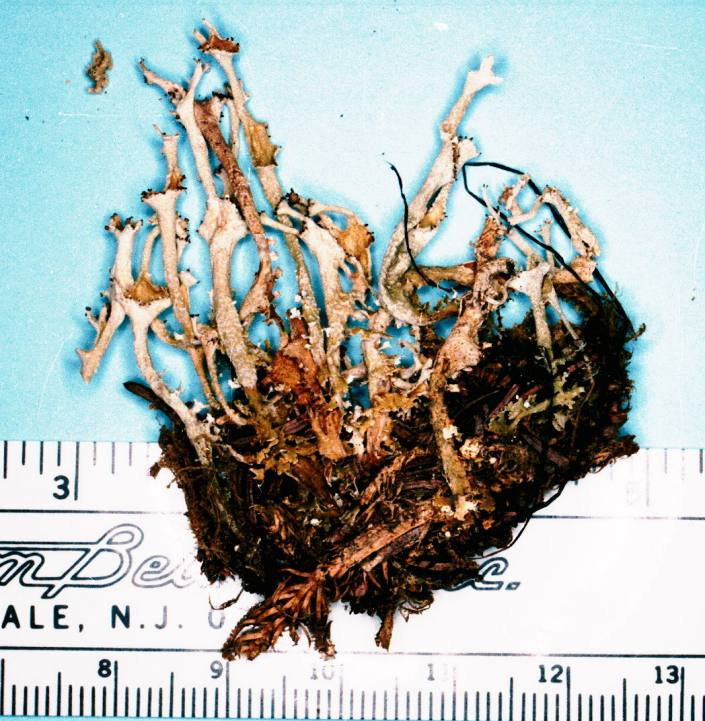 Cladonia cenotea (Ach.) Schaer., 1823 (photograph of a herbarium specimen) Growing on stumps in mixed forest along Caribou Plain Trail, at Fundy National Park, New Brunswick, Canada; collected and identified by A. Norden and B. Norden (No. L-12, 6 Jun 1974); specimen is now in the Lichen Herbarium of the New York Botanical Garden. (millimeter scale)